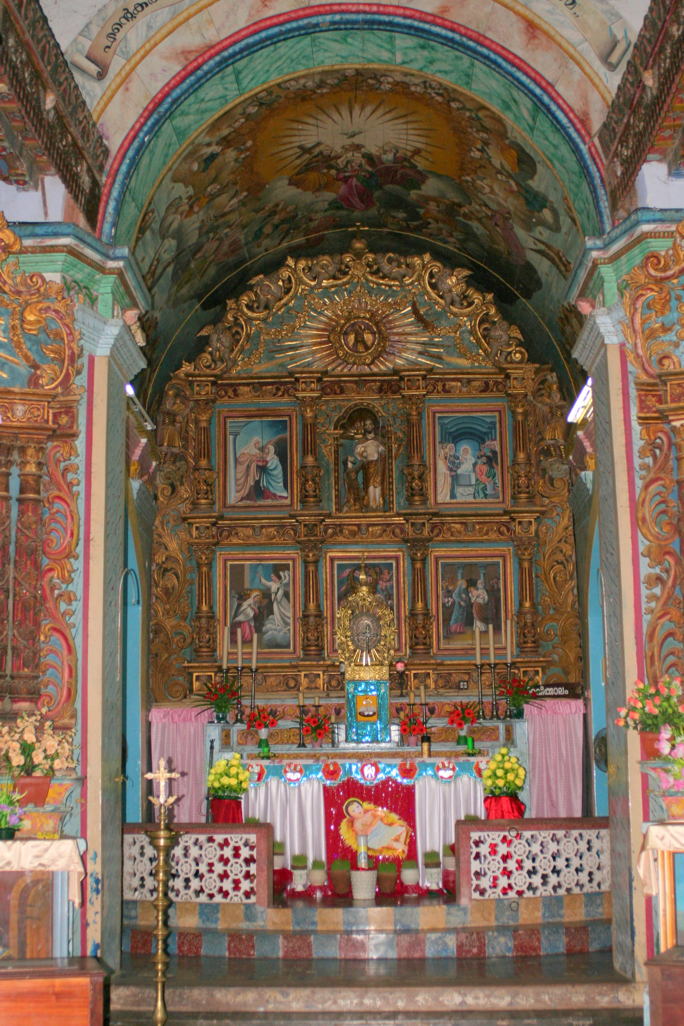 Inner view of Malayatoor Church in Kerala, India.